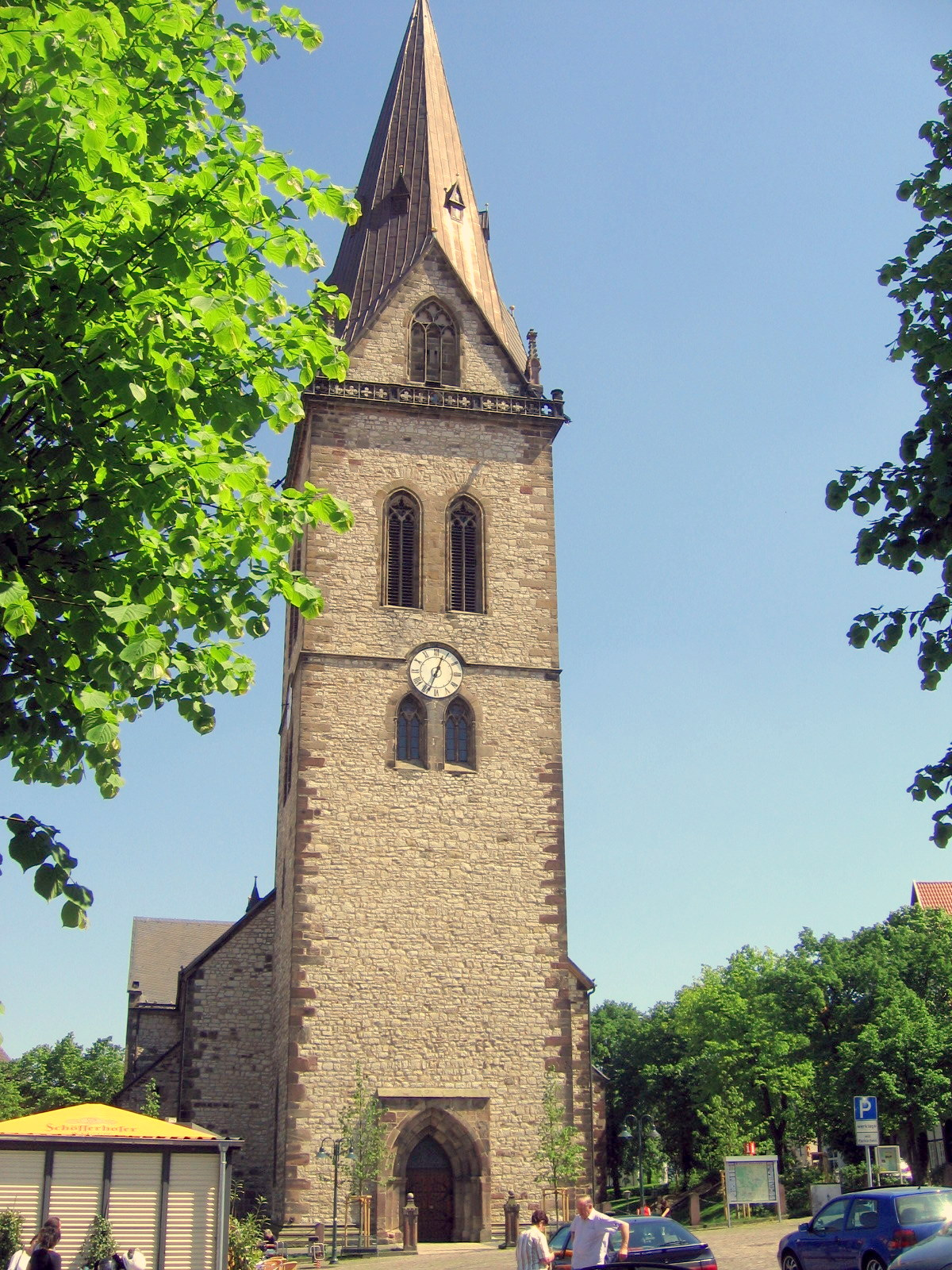 The Early Gothic Catholic Newtown church St. Johannes Baptist of Warburg, built in 1230.